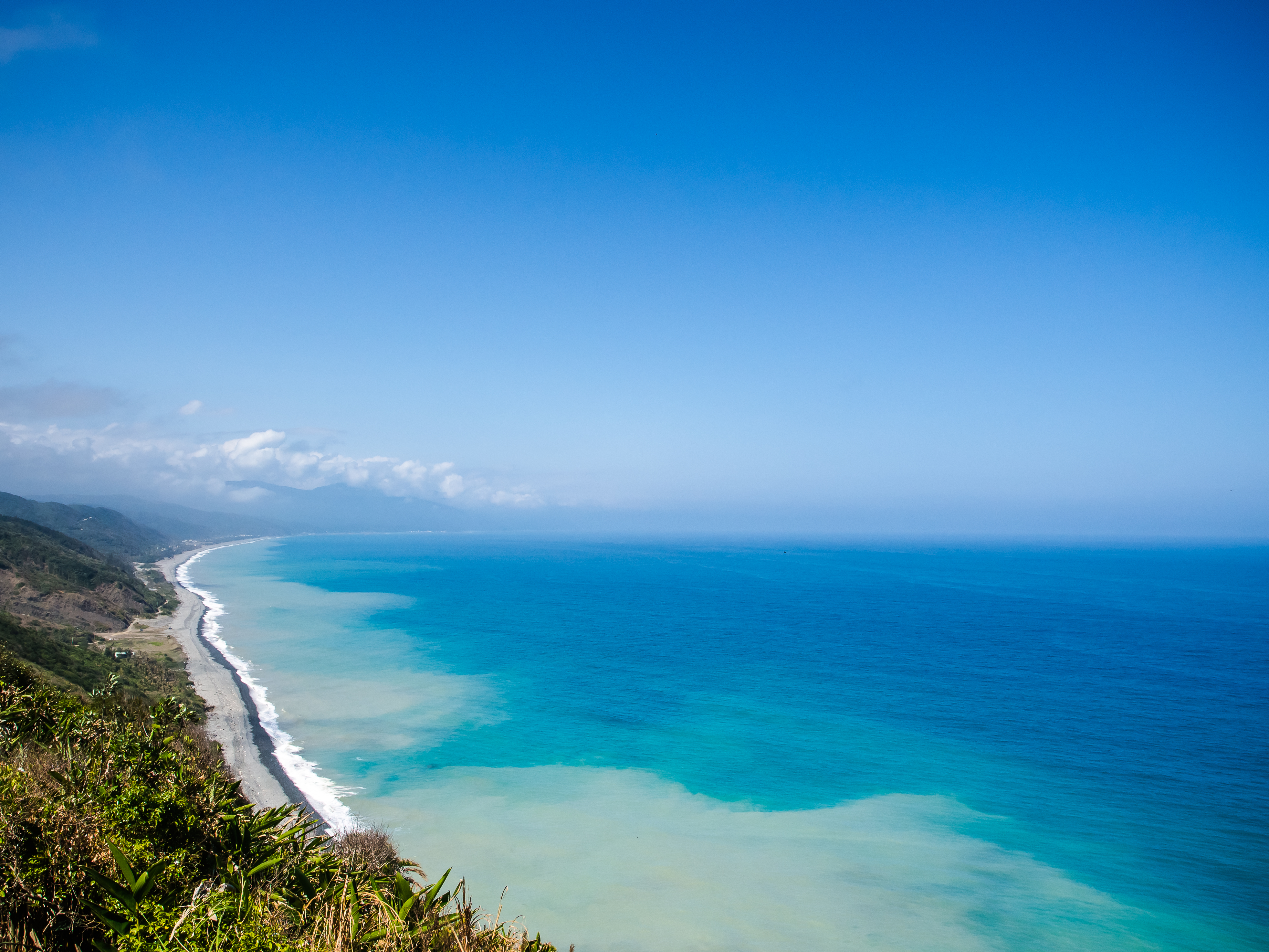 View of the beach, rocky coastline and the Philippine Sea from the Alangyi Historic Trail above Guanyinbi in Pingtung County, Taiwan. 中文（台灣）: 從屏東縣觀音鼻上的沿海小徑(阿朗壹古道)所見到南田村、海灘、菲律宾海、岩岸景觀在台灣